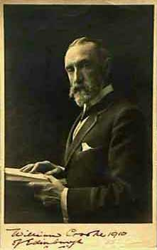 Photogravure of photographer William Crooke (signed by subject)